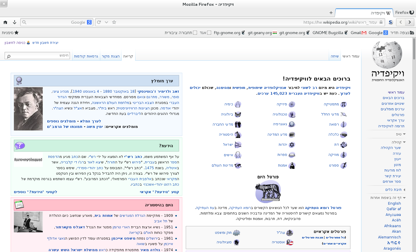 Firefox 20 on GNOME in Hebrew